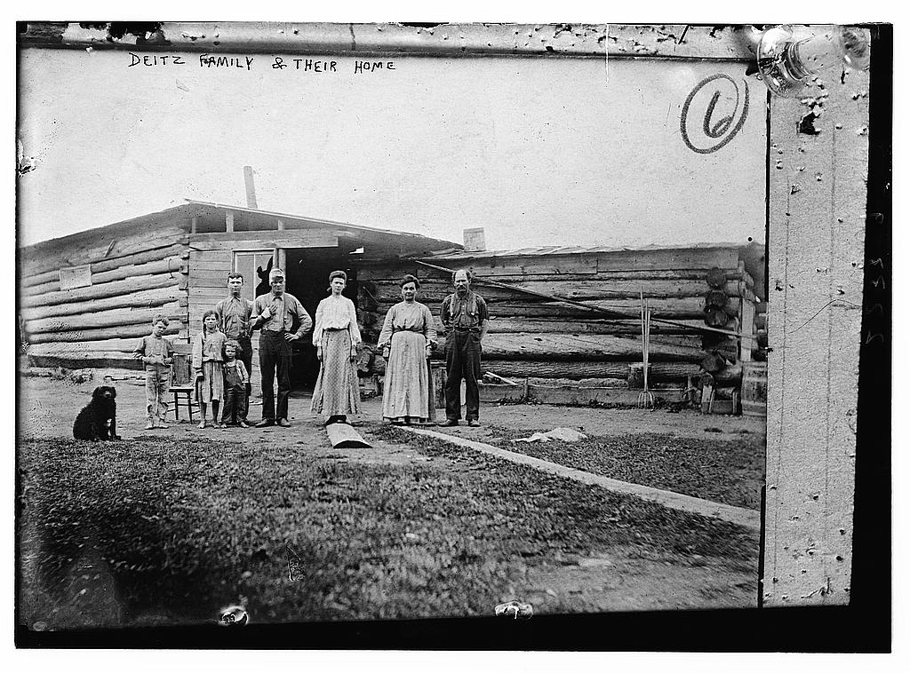 John F. Deitz family & their home in 1911